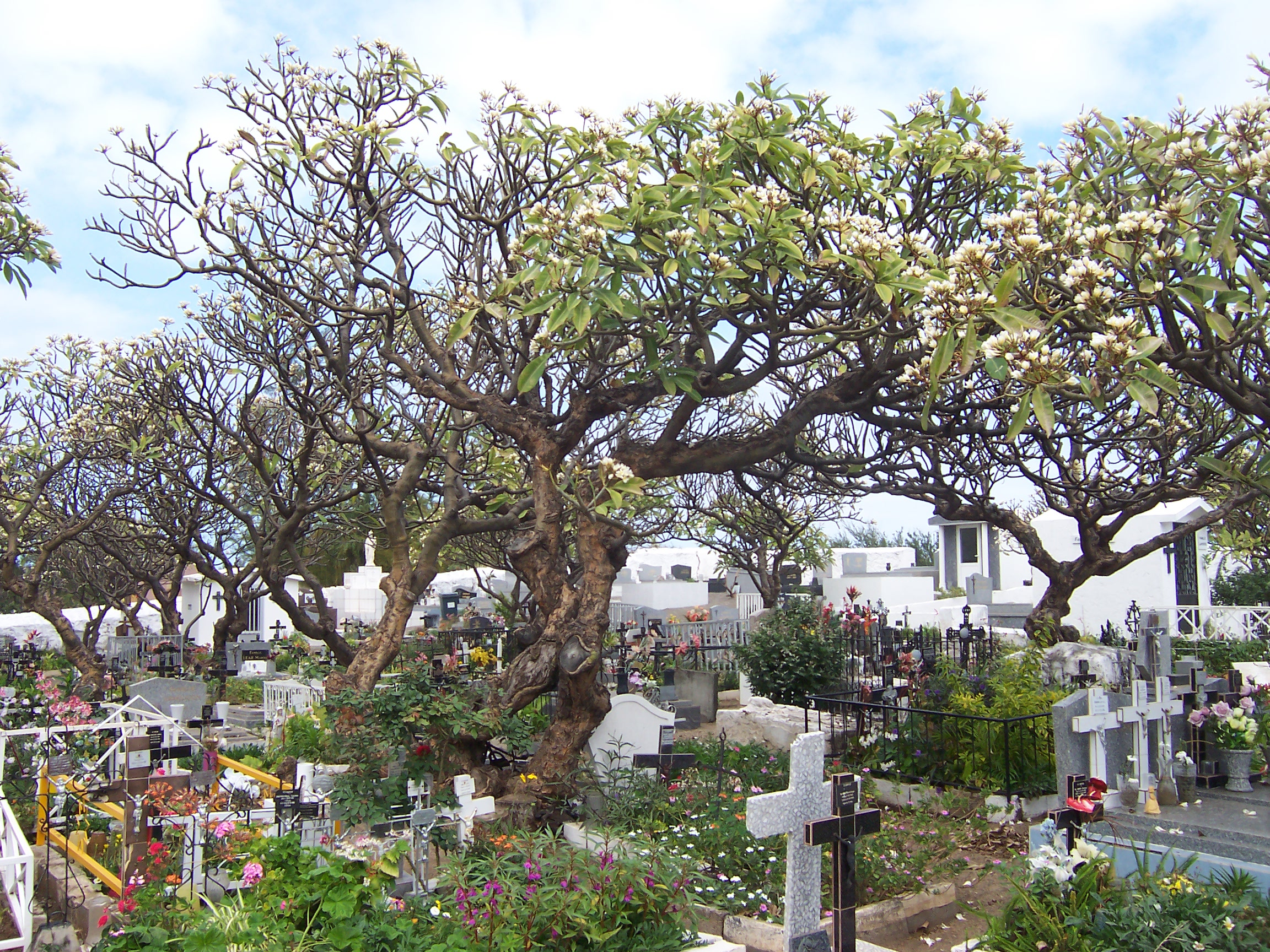 White Frangipani trees (Plumeria rubra) in the graveyard of Saint-Leu (Réunion island)